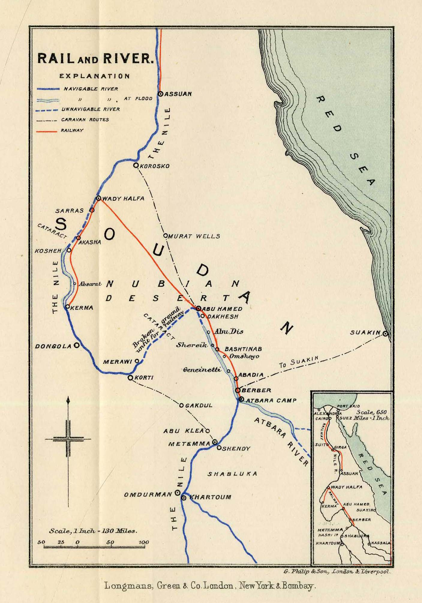 Rail and River Explanation